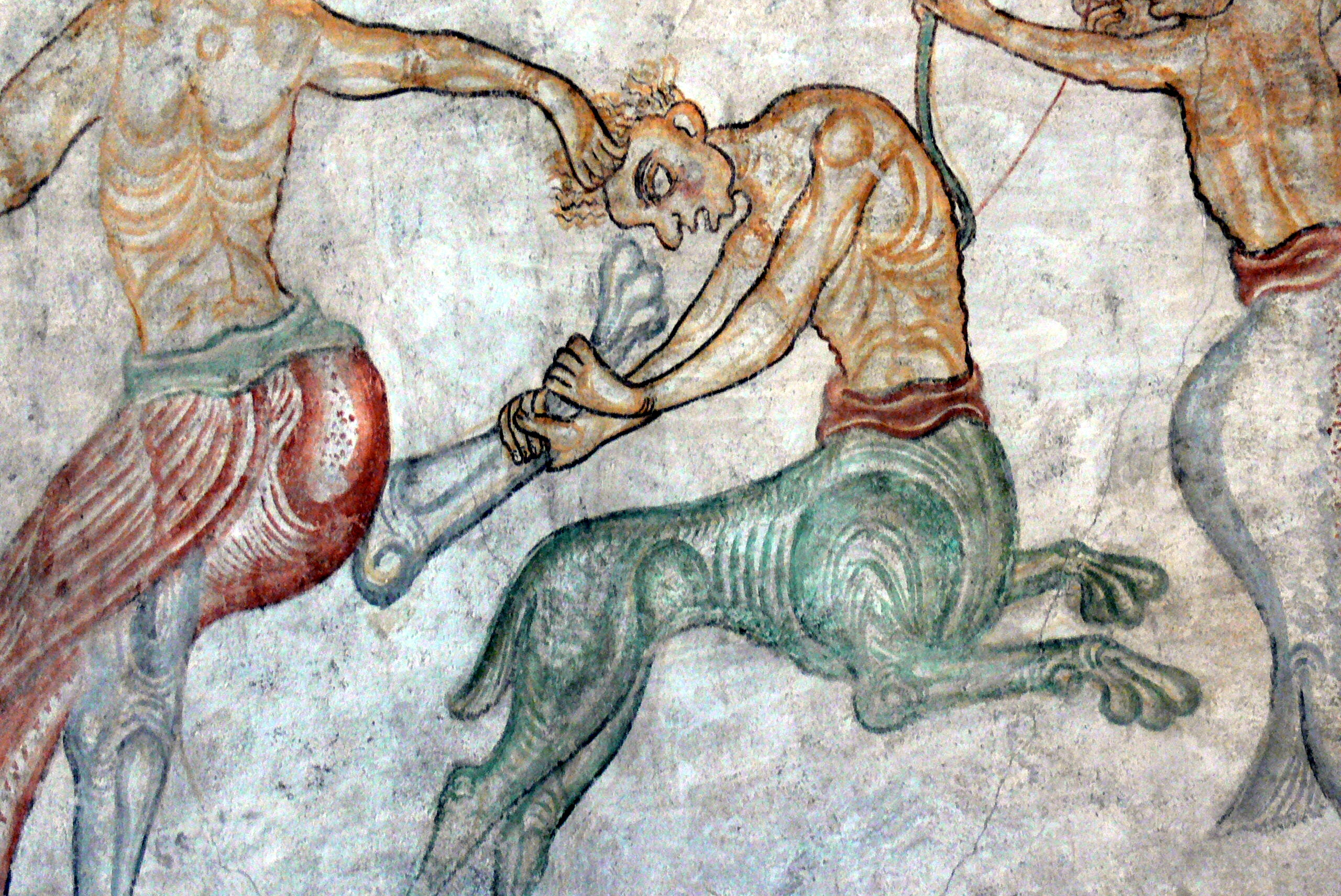 Tramin ( South Tyrol ). Saint James church in Kastelaz: Romanesque frescos ( 1210s ) showing fantastic creatures: Centaur.